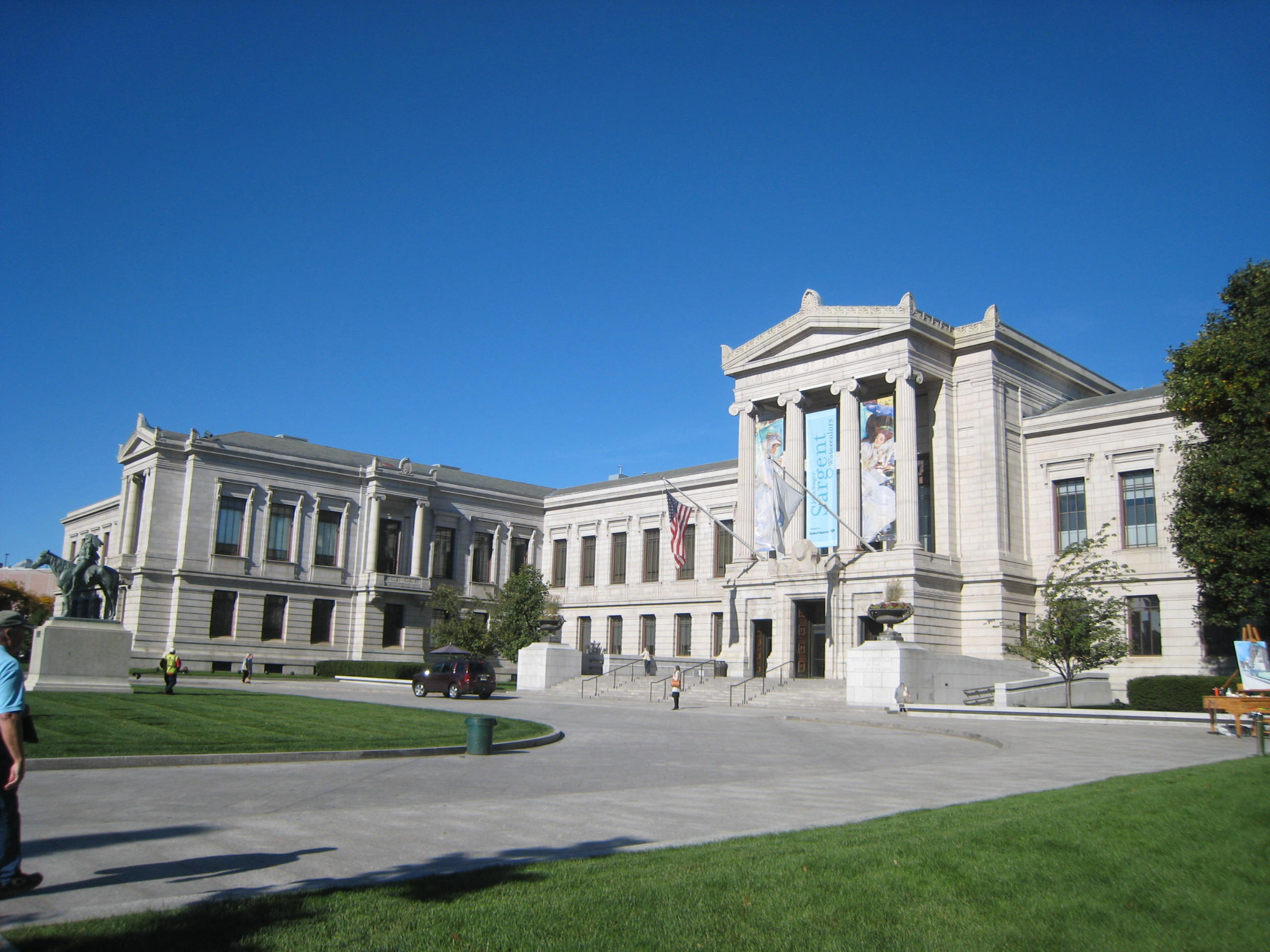 MFA, Boston, MA.